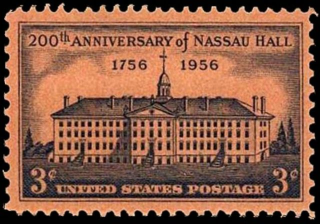 This file contains a depiction of a US stamp from 1956, black ink on orange paper, identified as the Nassau Hall issue.